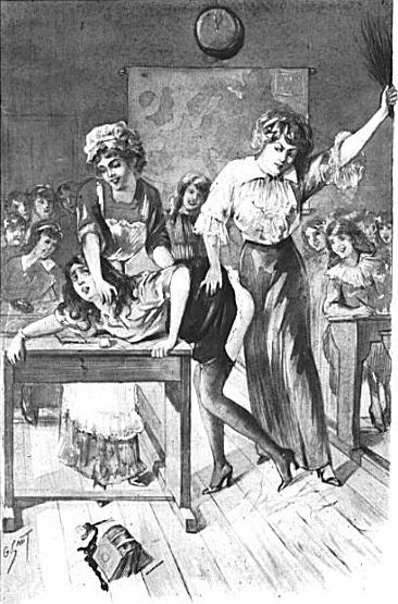 School birching illustration.